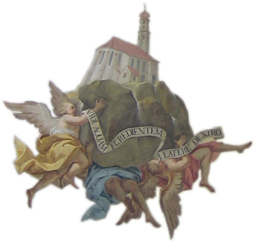 Detail of the main fresco in the late Baroque church of Maria Steinbach: angels holding a model of the late Gothic church built in 1519.